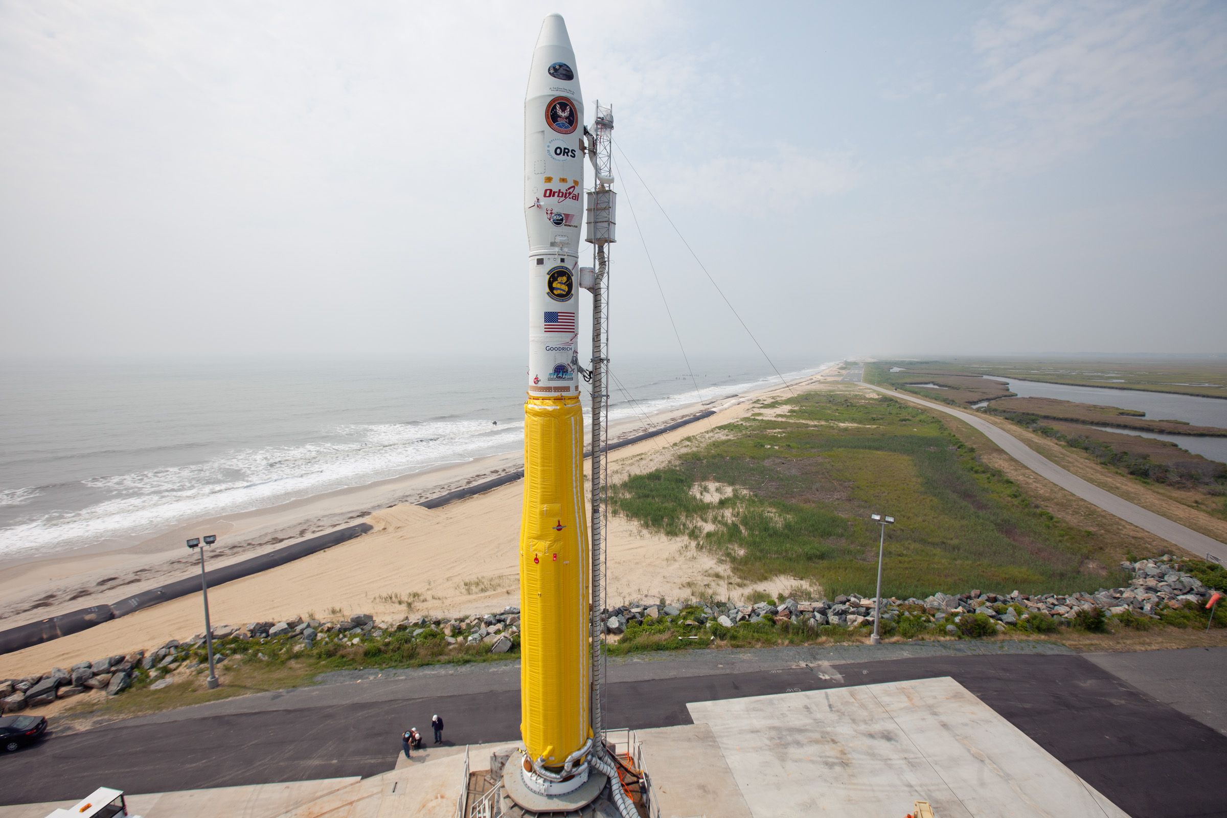 A Minotaur I rocket sits on the pad at Wallops Island, Va., waiting to loft the ORS-1 satellite for the Operationally Responsive Space Office.